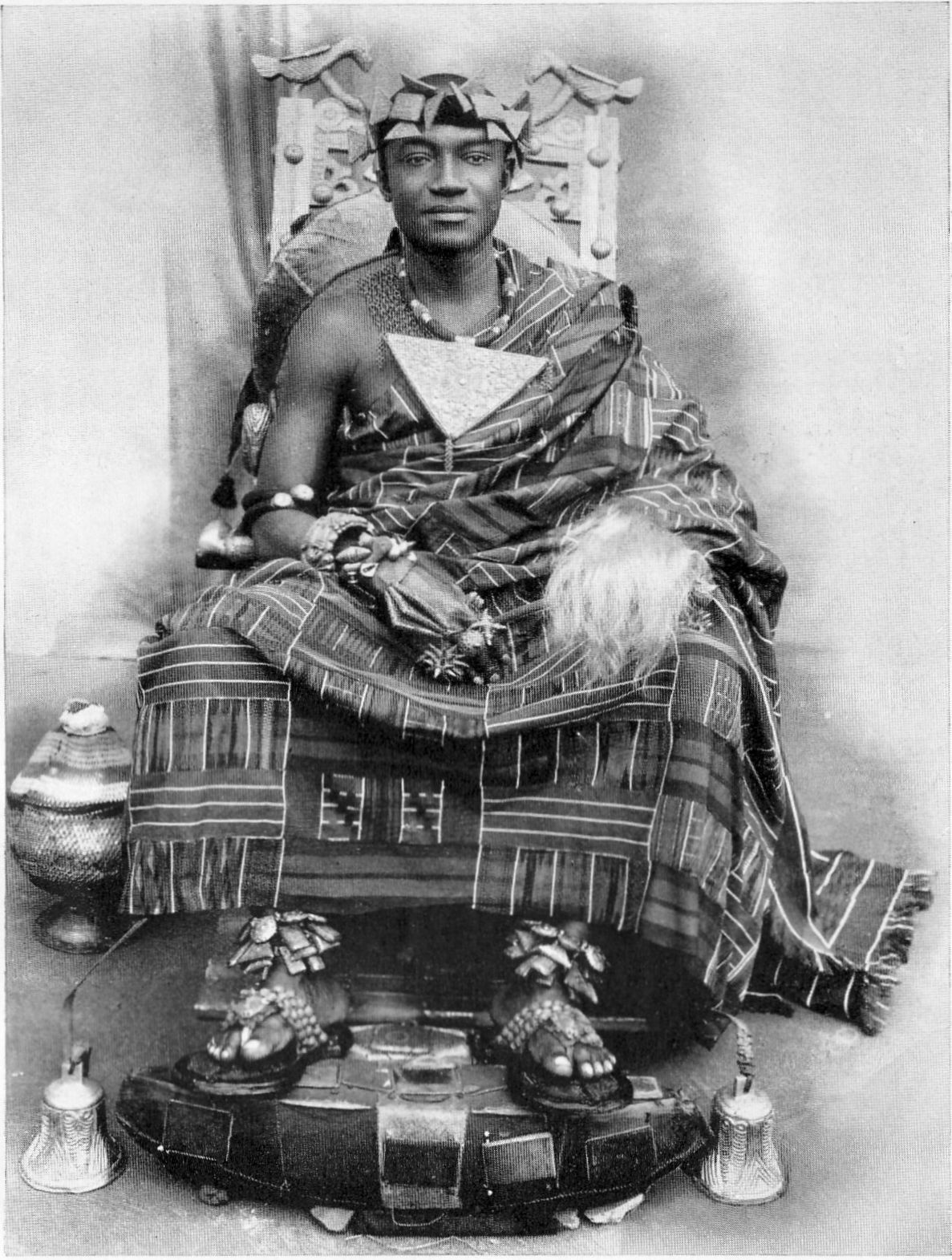 The Asantehene (King of Ashanti) Nana Otumfoe Sir Osai Agyemang Prempeh II (ruled April 24, 1933 - May 27, 1970).